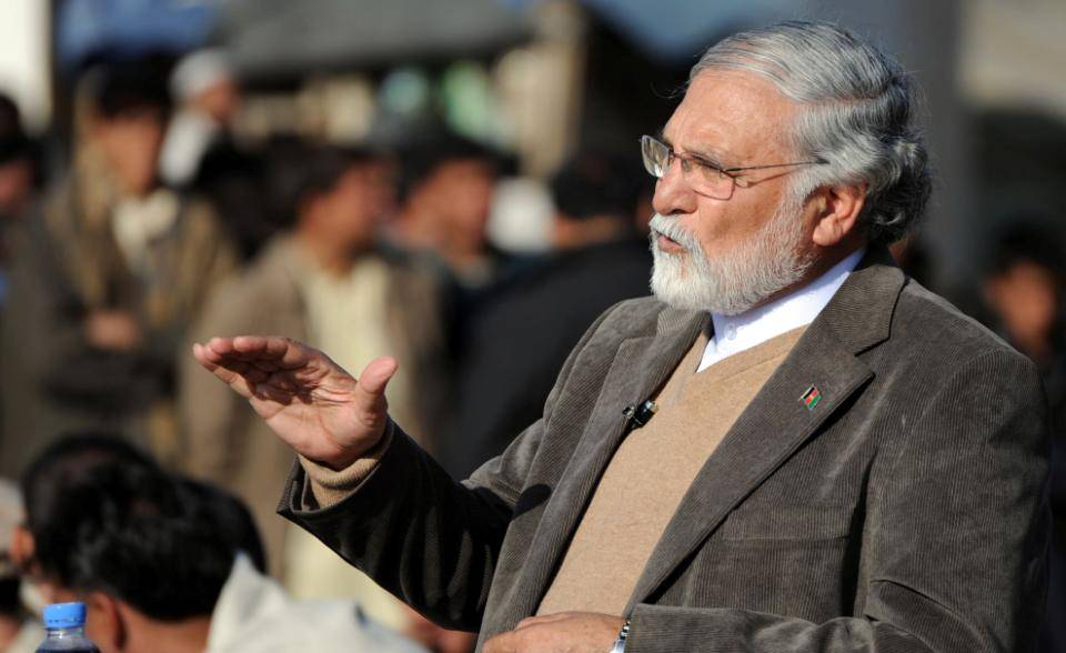 Fazlullah Wahidi, governor of Kunar province, gives a speech at a cricket tournament near Forward Operating Base Wright, Kunar Province, Afghanistan, Feb. 02, 2010. (U.S. Army photo by Spc. David A. Jackson/Released)